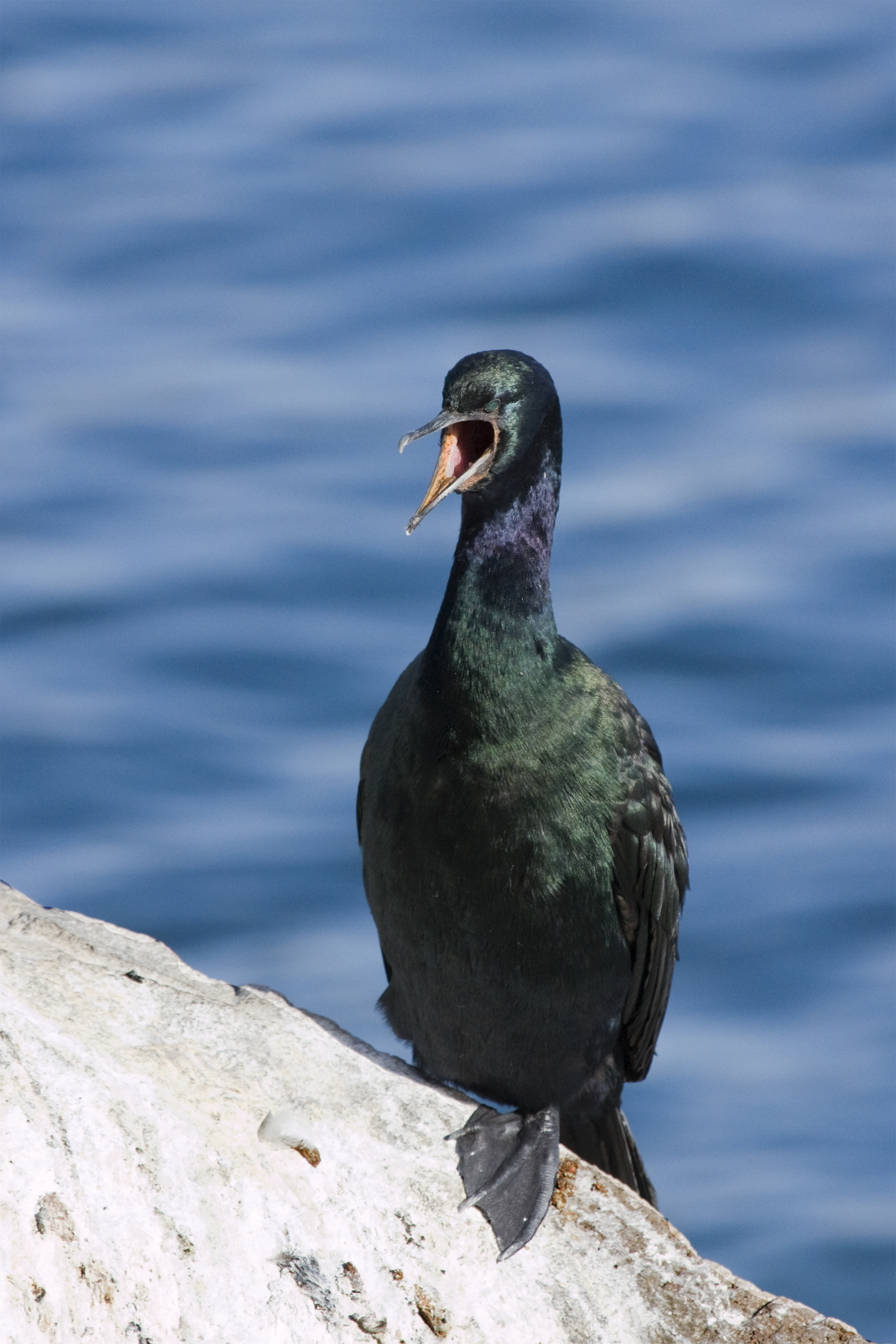 Adult Pelagic Cormorant at south side Morro Rock